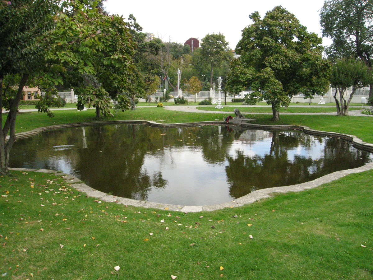 A scene of the pool in the garden of Ihlamur Palace in Istanbul, Turkey